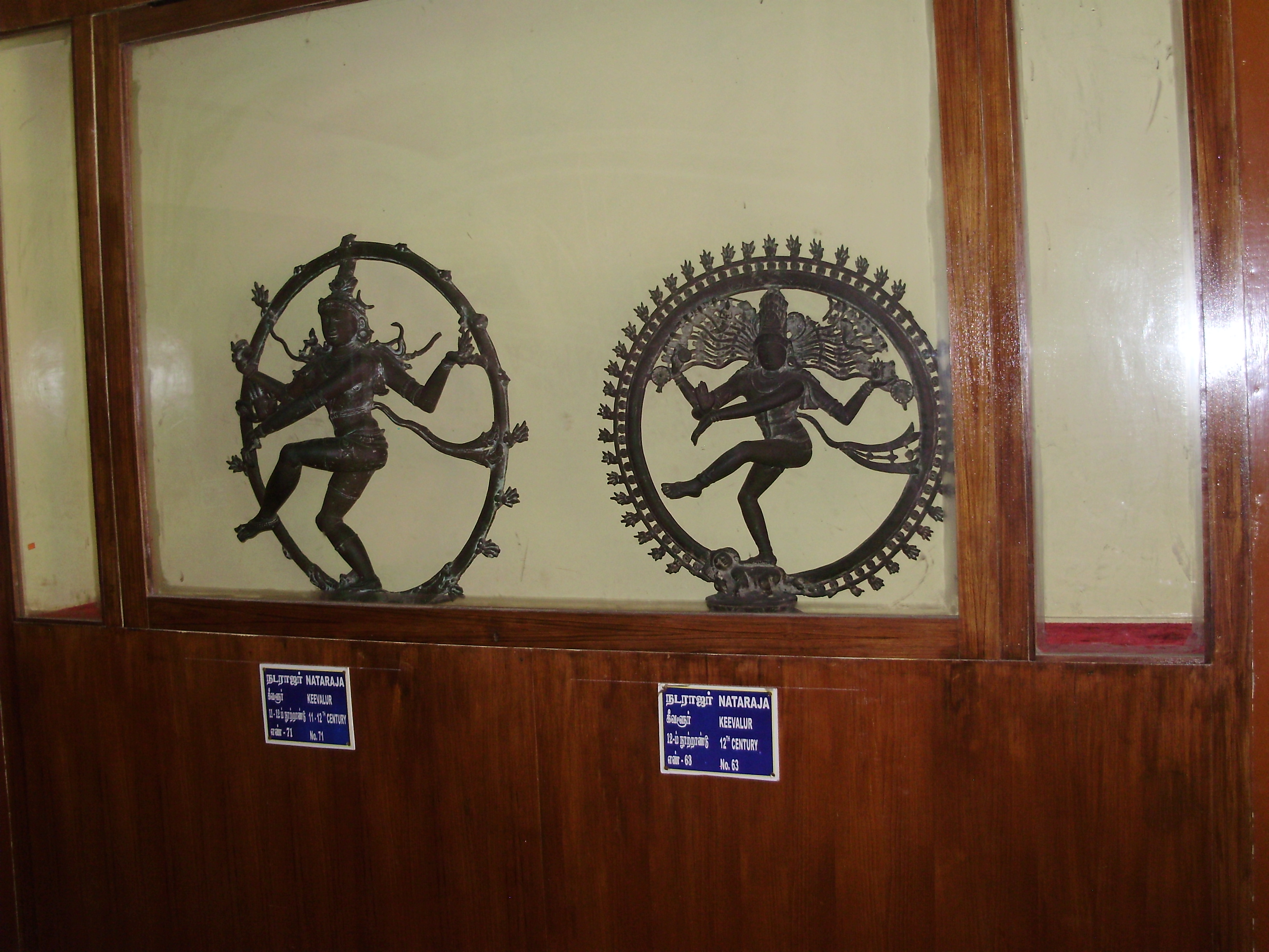 நடராசன்